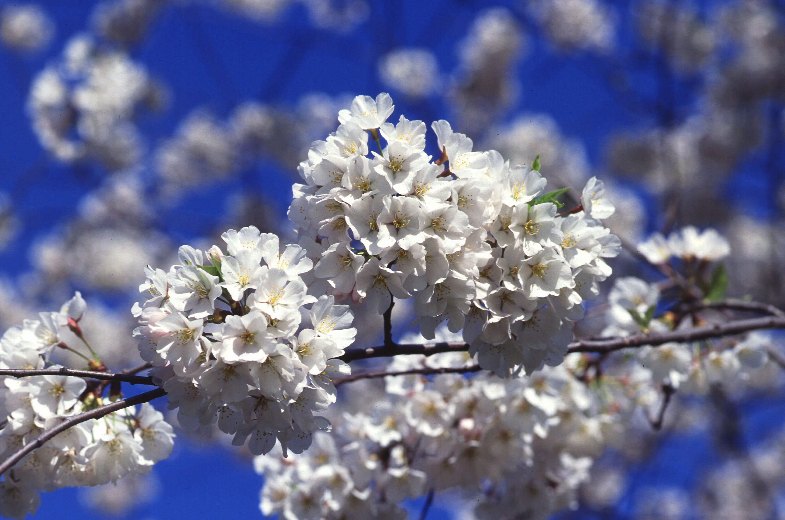 Cherry tree blossoms from Japan around the Tidal Basin in Washington, DC.